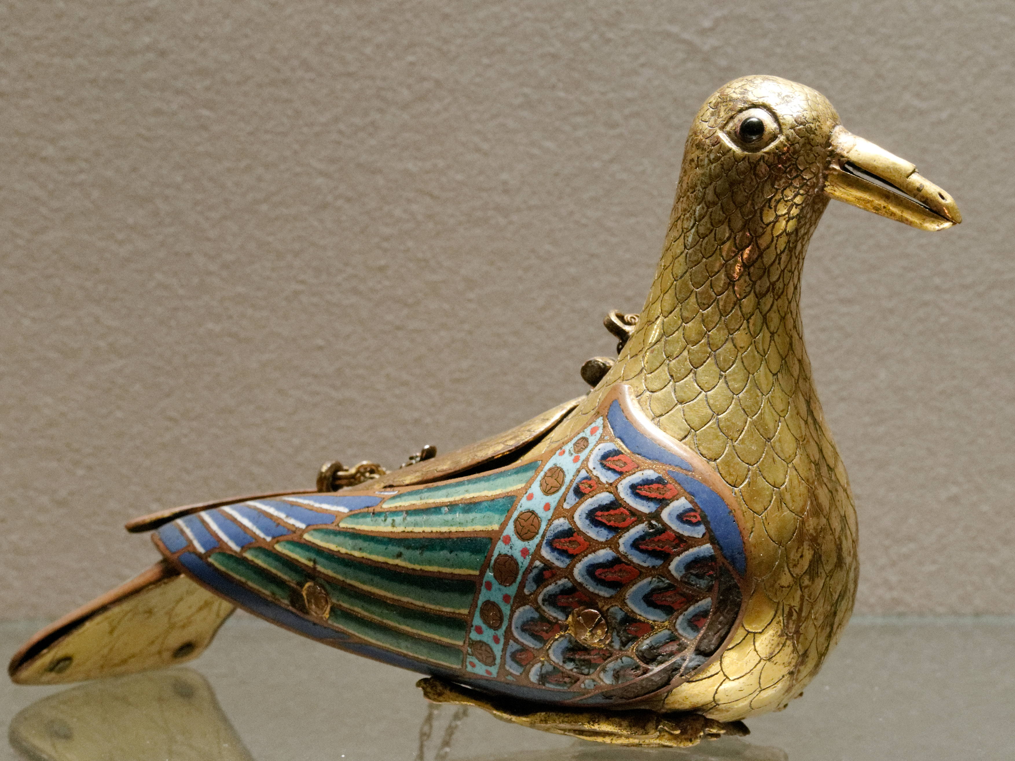 Eucharistic dove, Limoges enamel.